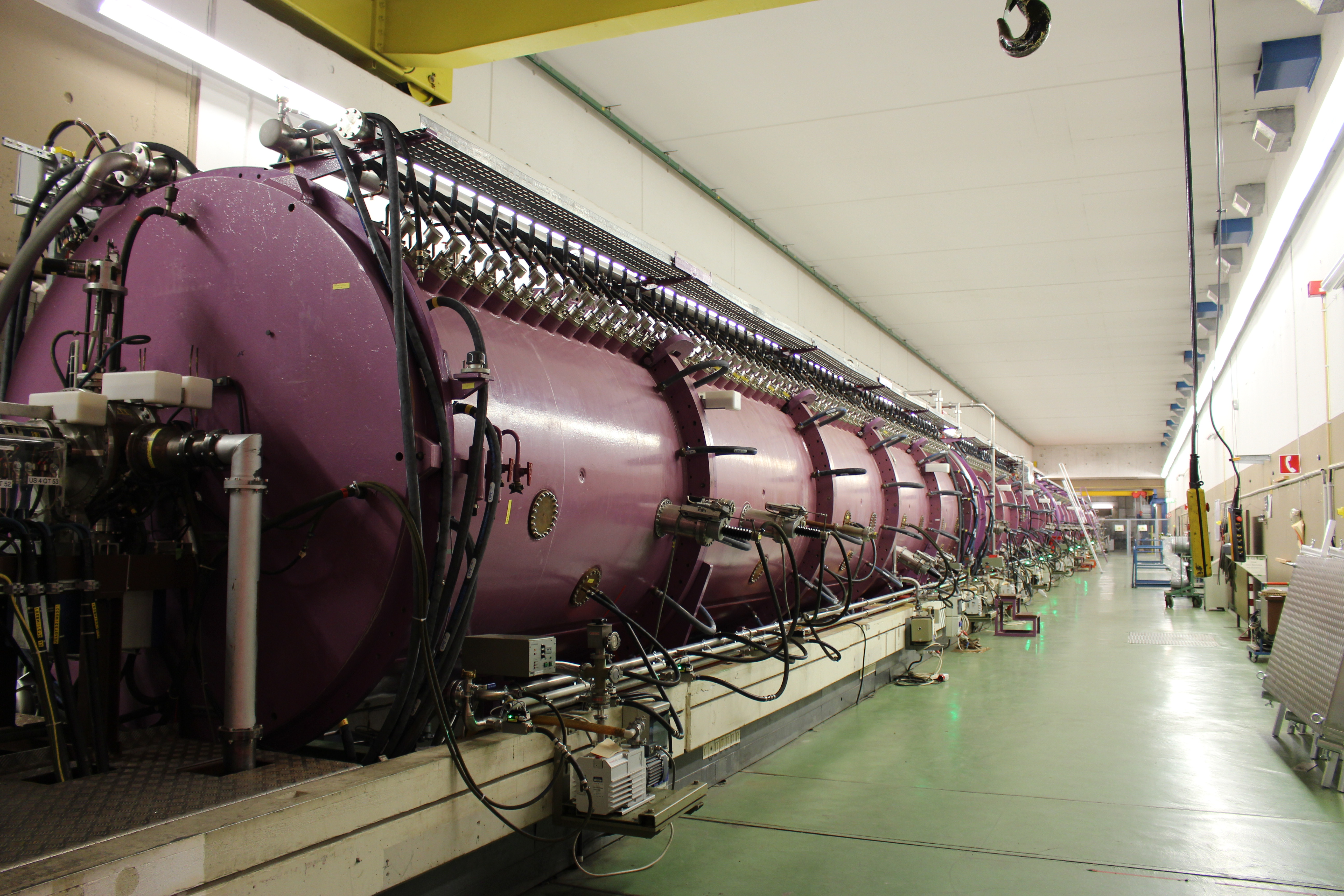 Visit of the GSI Helmholtz Centre for Heavy Ion Research, Darmstadt, Germany.